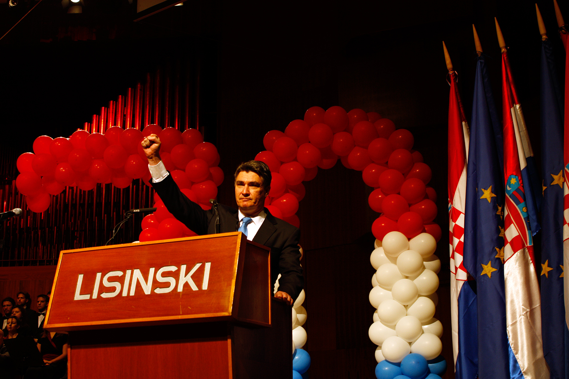 Zoran Milanović shouting "No pasaran" ("They shall not pass") at the end of his speech at the celebration of the 70th anniversary of victory over fascism